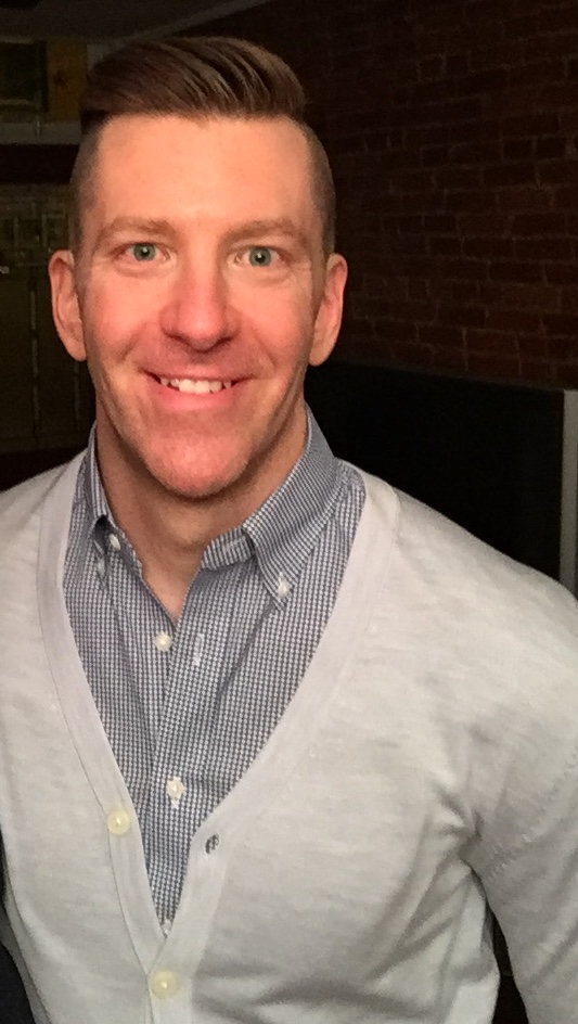 Self taken photo by/of Brett Krutzsch